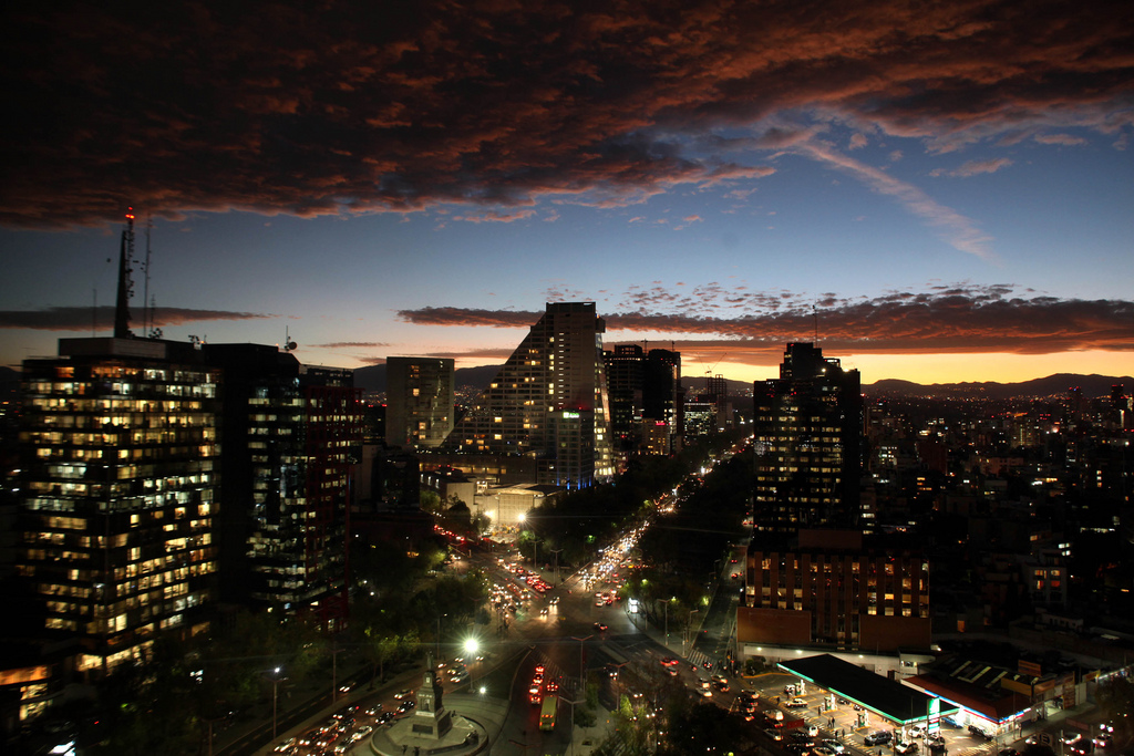 Skyline Paseo Reforma Mexico